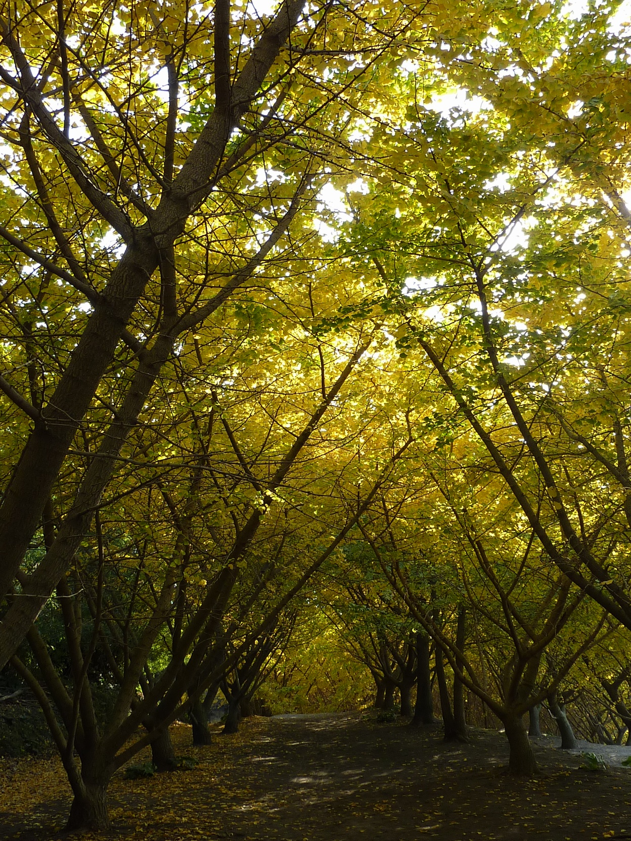 Tarumizu Thousand Ginkgos (Tarumizu City, Kagoshima Prefecture, Japan)